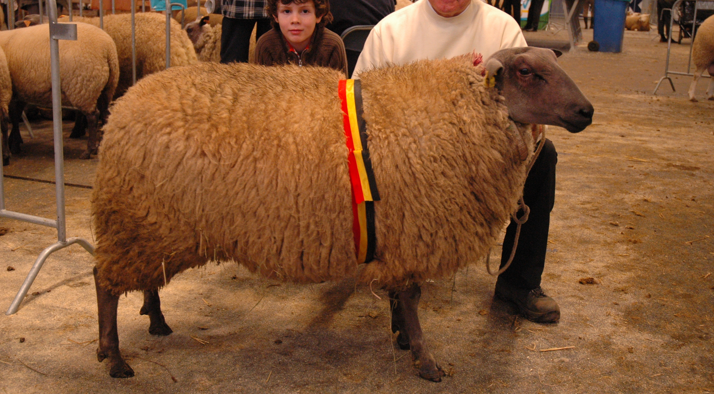 A Bleu du Maine sheep at a Flemish agricultural show.